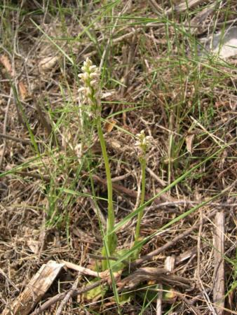 A work released per the GNU Free Documentation License by: Jorge (J.J.) Valencia- Spain